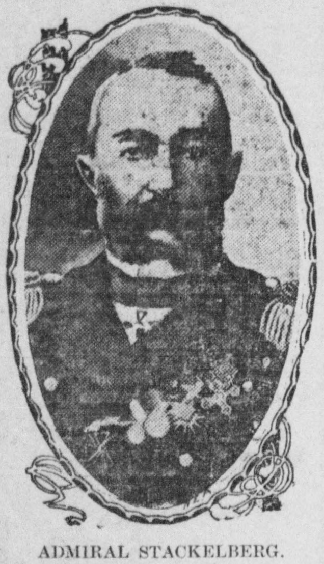 in 1904, Ewald von Stackelberg was an admiral in the Imperial Russian Navy.